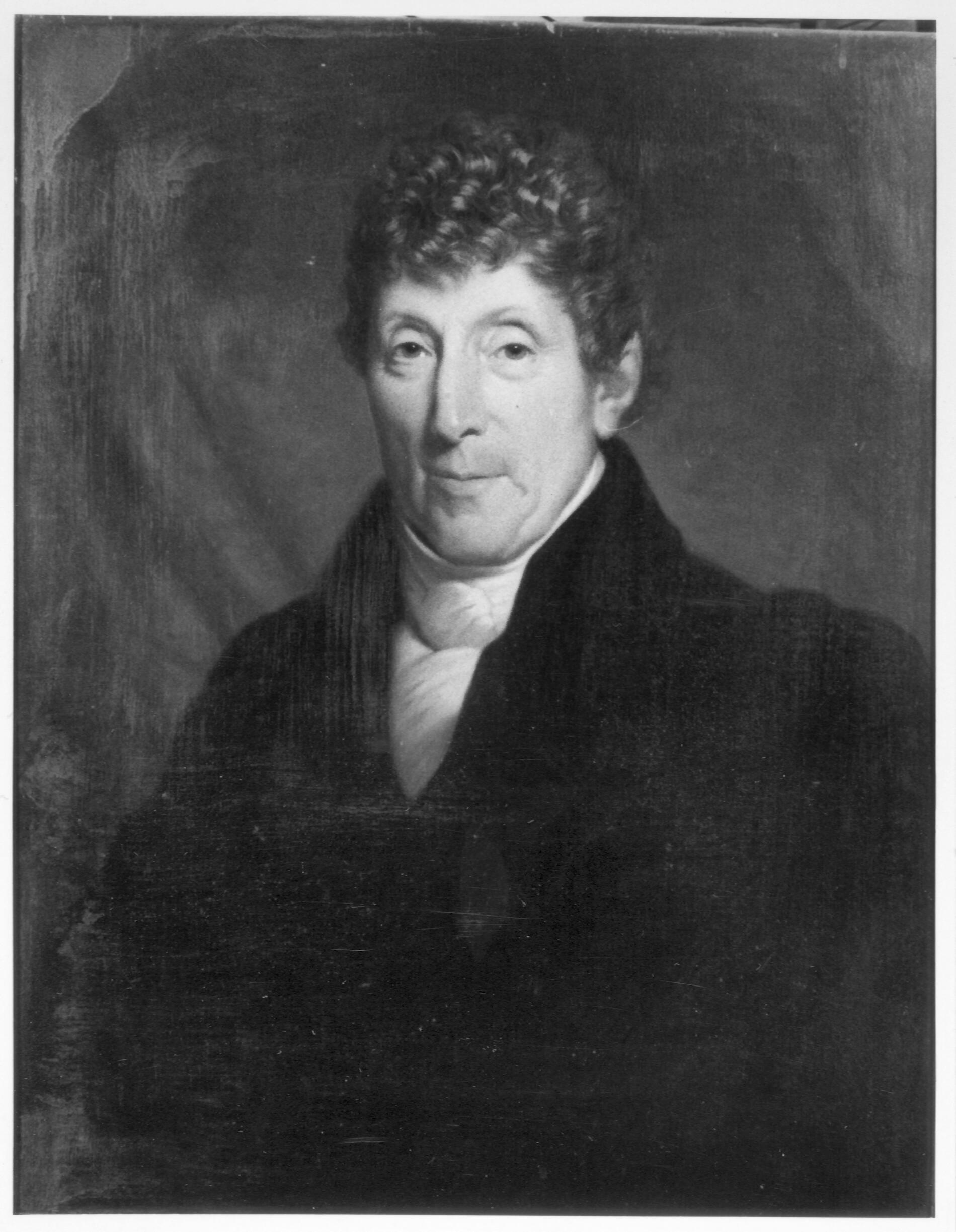 Pieter Samuël Dedel (1766-1851)